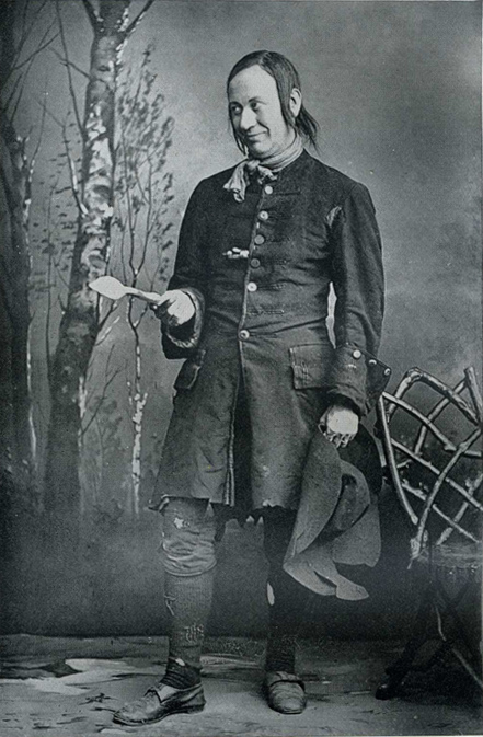 Photo of Arthur Williams as Lurcher in Cellier's 'Dorothy'